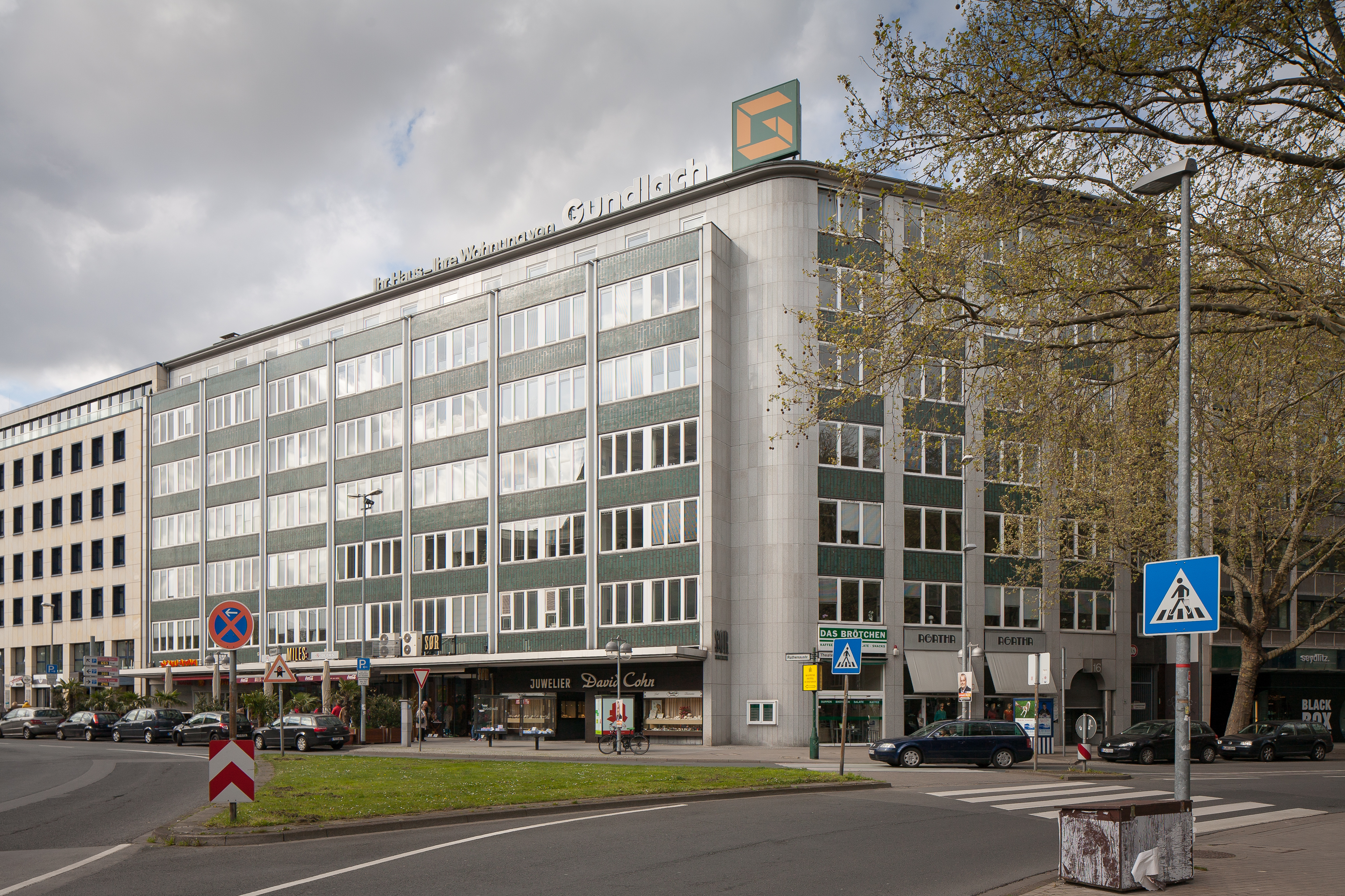 Gundlach office buildung located in central Hanover, Germany.